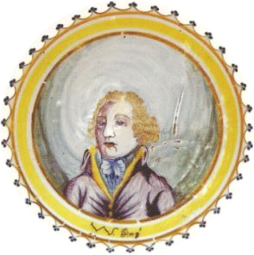 Possible (and if so, only known) likeness of Domenico Vandelli (1735-1816), in an 18th-century ceramic dish produced in Vandelli's ceramics factory in Coimbra. Machado de Castro National Museum, in Coimbra, Portugal.